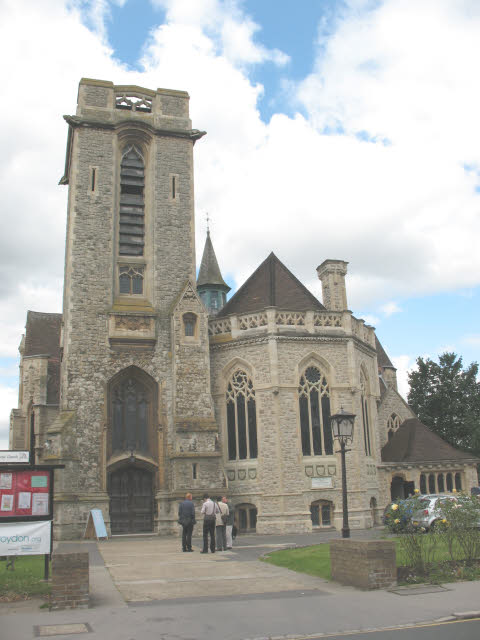 St Mary Magdalene with St Martin parish church, Canning Road, Addiscombe, London (formerly Surrey), seen from the east